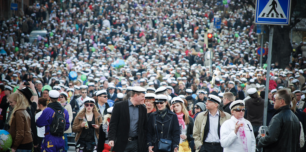 On the way down to the river, so many students!!